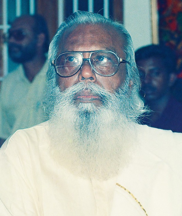 KERALA ARTIST M.V.Devan